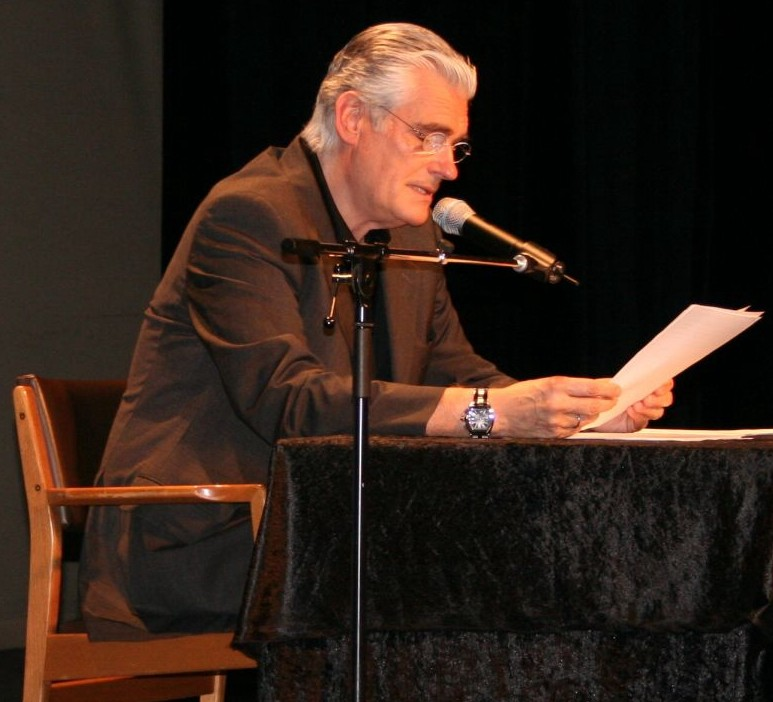 Sky du Mont reading Thomas Mann´s book "Bekenntnisse des Hochstaplers Felix Krull" in Wormser Festhaus